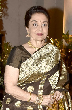 Asha Parekh at Saudamini Mattu's wedding reception